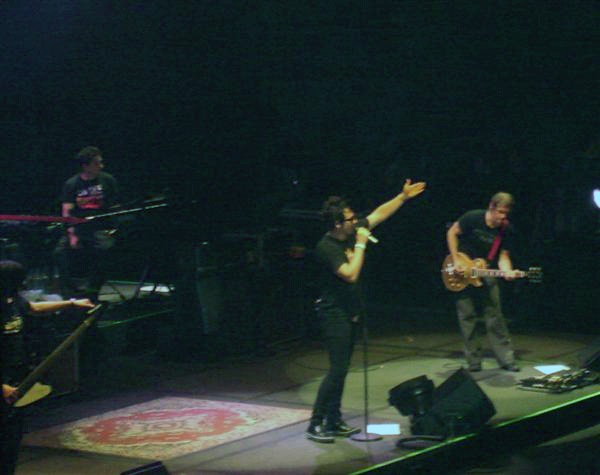 Chilean rock band La Ley during a concert in Tegucigalpa, Honduras